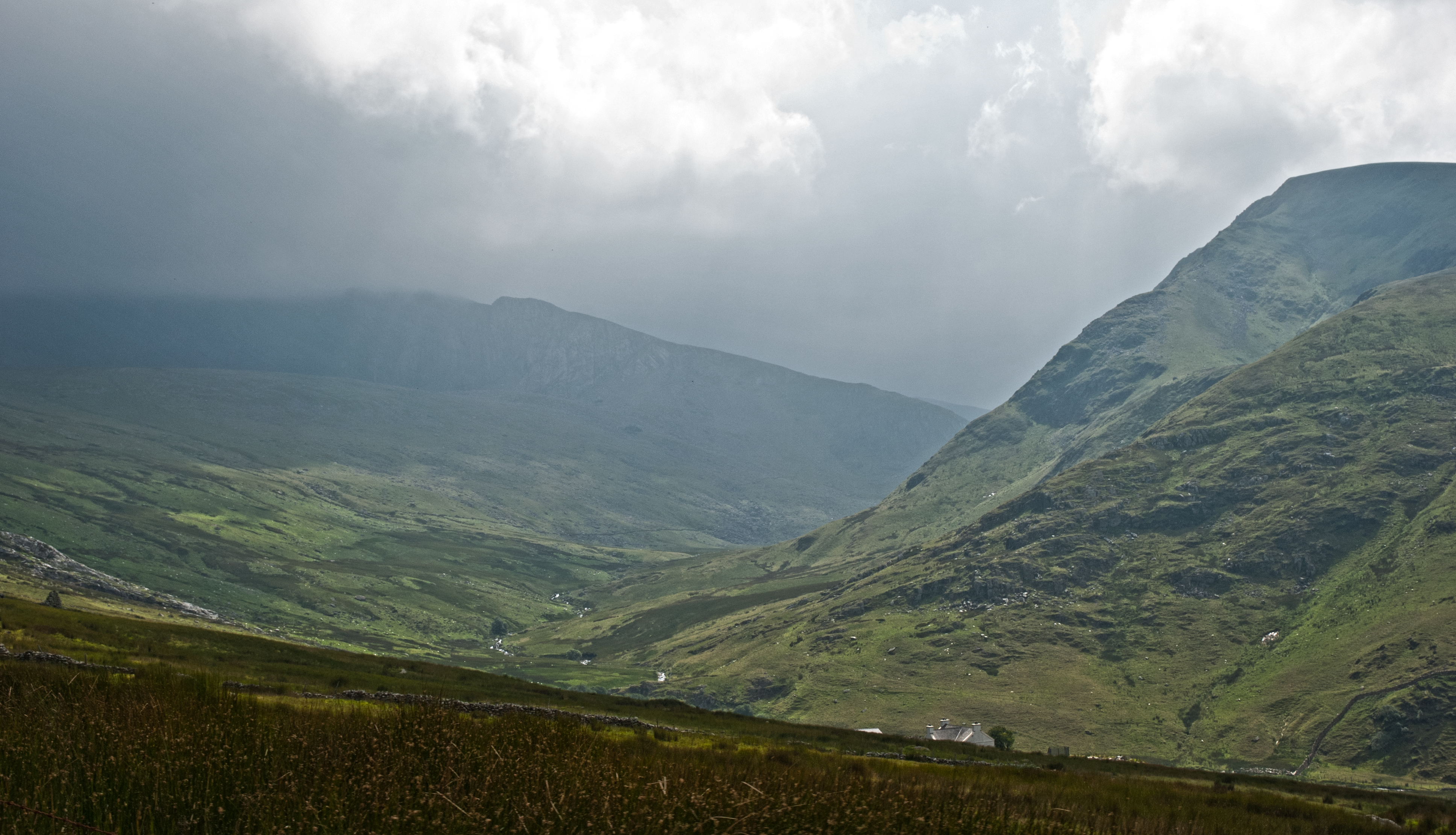 The rain is coming, Snowdon